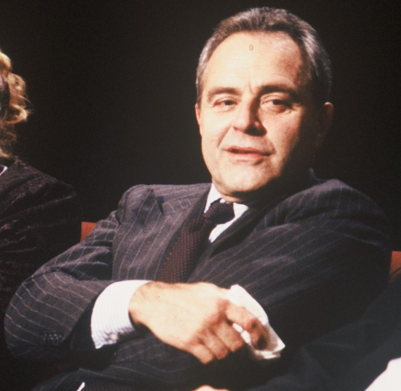 Taki Theodoracopolous appearing on After Dark on 23 February 1991 in episode "Prisons: No Way Out". Other guests: Theodore Dalrymple, Paul Dolese, Sheila Heather-Hayes, Tony Lambrianou, Joe Whitty, Mary Eaton and Jim Wood.